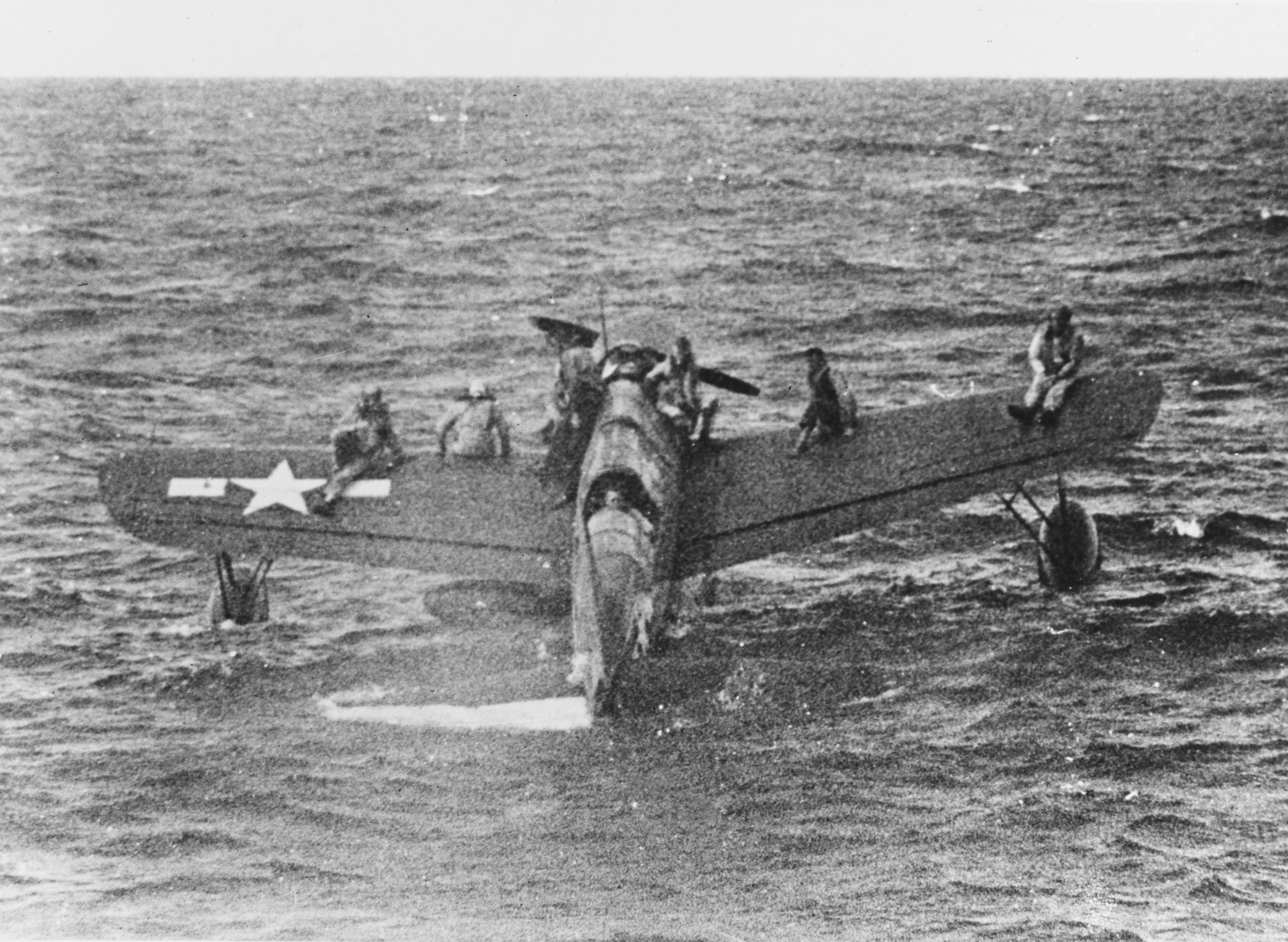 A U.S. Navy Vought OS2U Kingfisher floatplane from the battleship USS North Carolina (BB-55) off Truk with nine aviators on board, awaiting rescue by USS Tang (SS-306), 1 May 1944. The plane had landed inside Truk lagoon to recover downed airmen. Unable to take off with such a load, it then taxiied out to Tang, which was serving as lifeguard submarine during the 29 April-1 May carrier strikes on Truk.